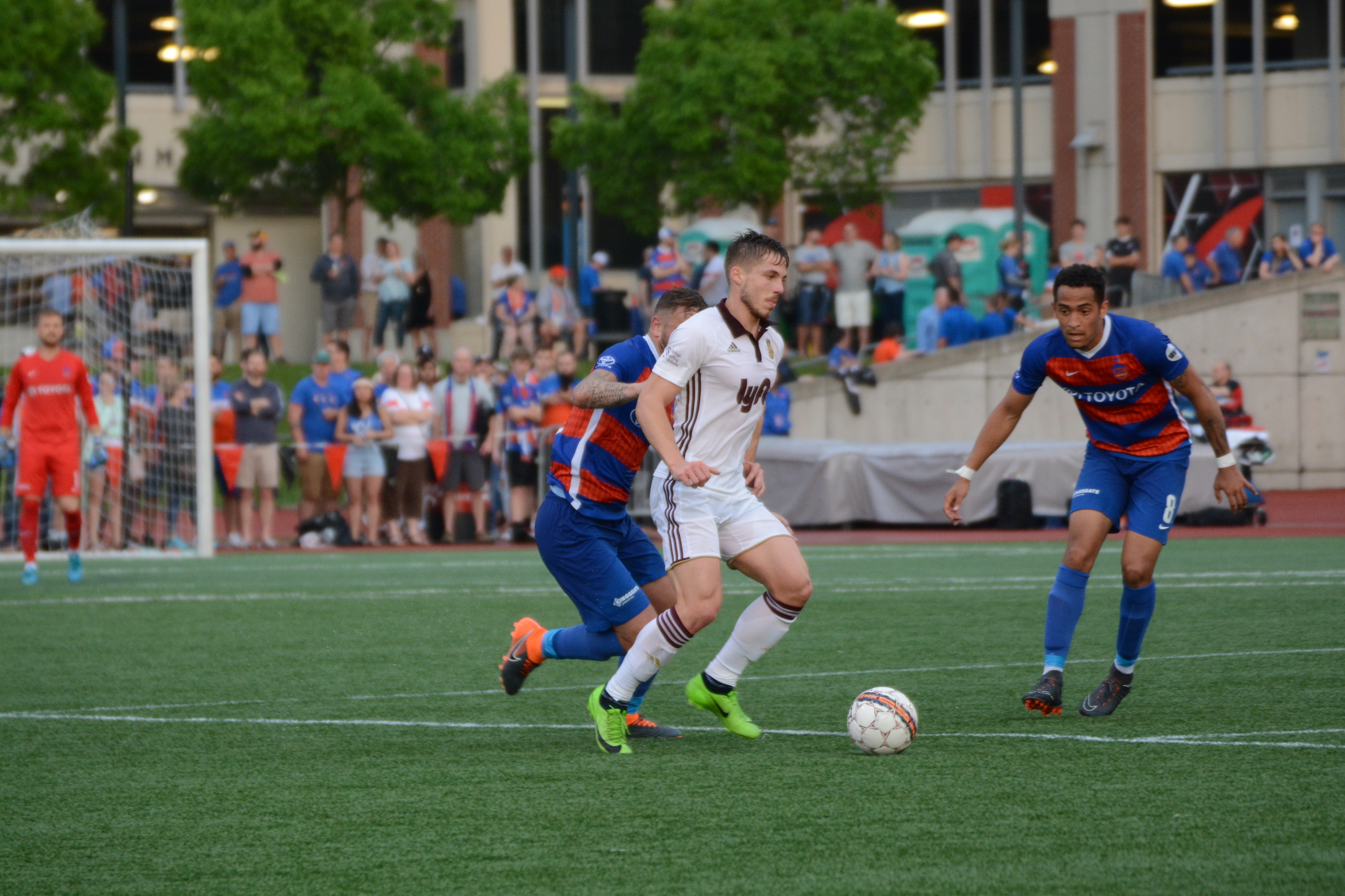 Rafa Mentzingen playing for Detroit City FC v FC Cincinnati